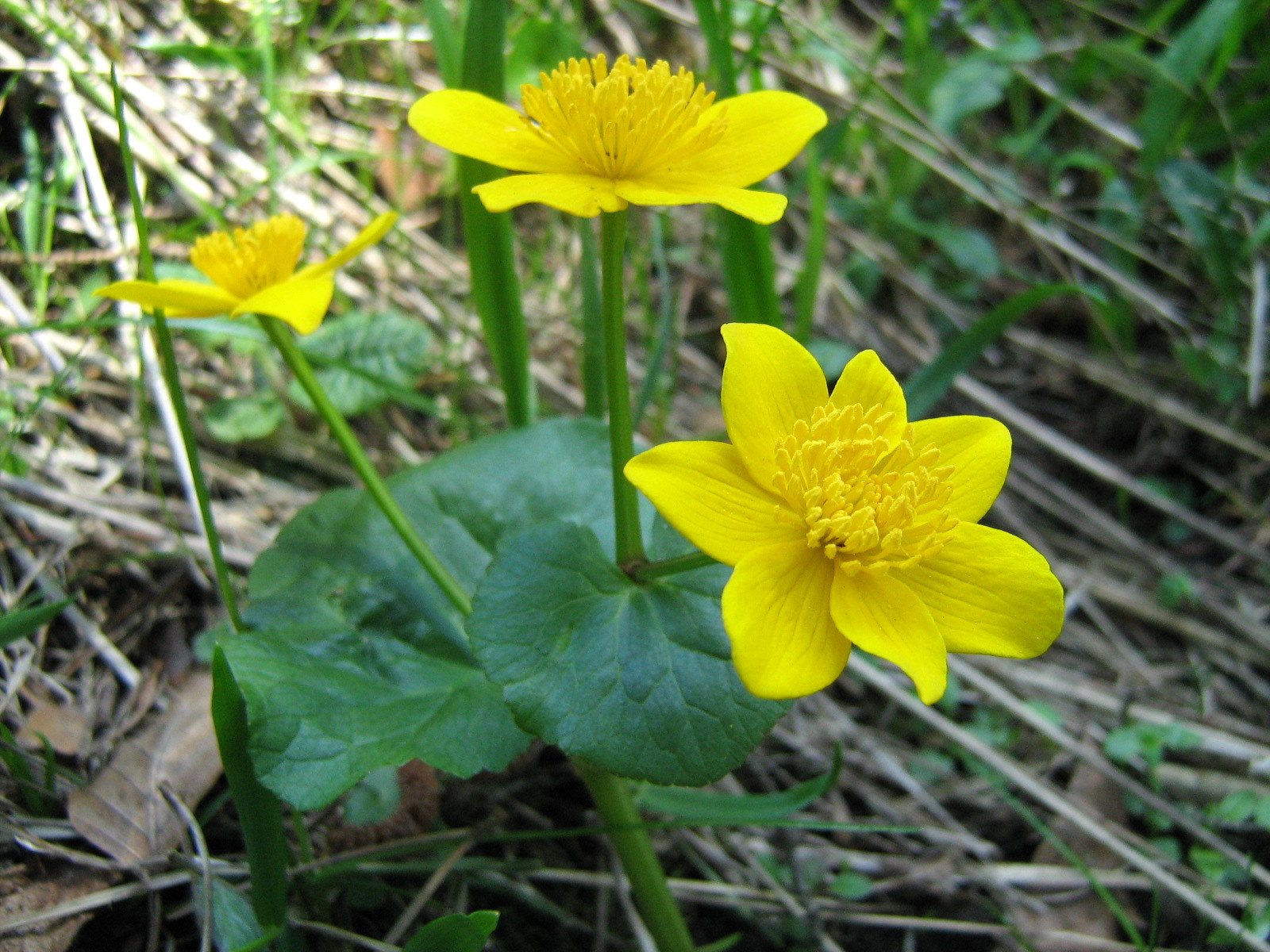 Caltha_palustris from Poland (Pieniny)